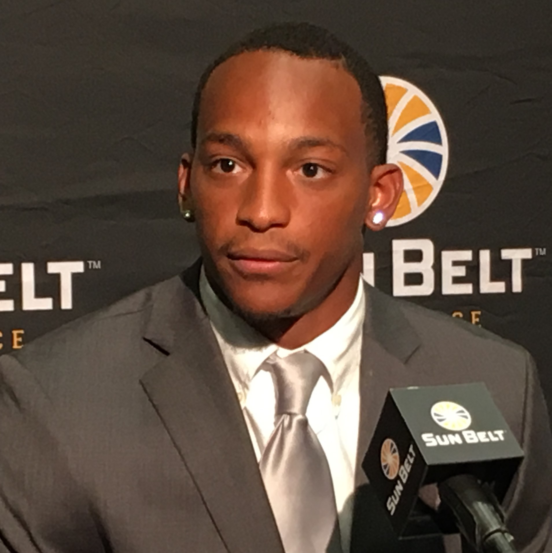 Larry Rose III, running back for the New Mexico State Aggies football team, at the 2017 Sun Belt Conference media days in New Orleans.